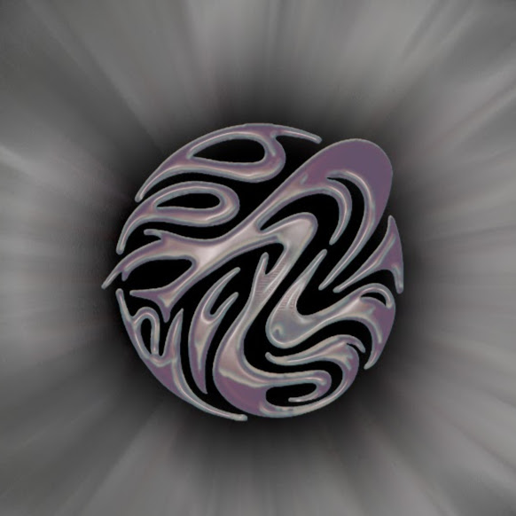 SHOKO FUJIKAWA-Max